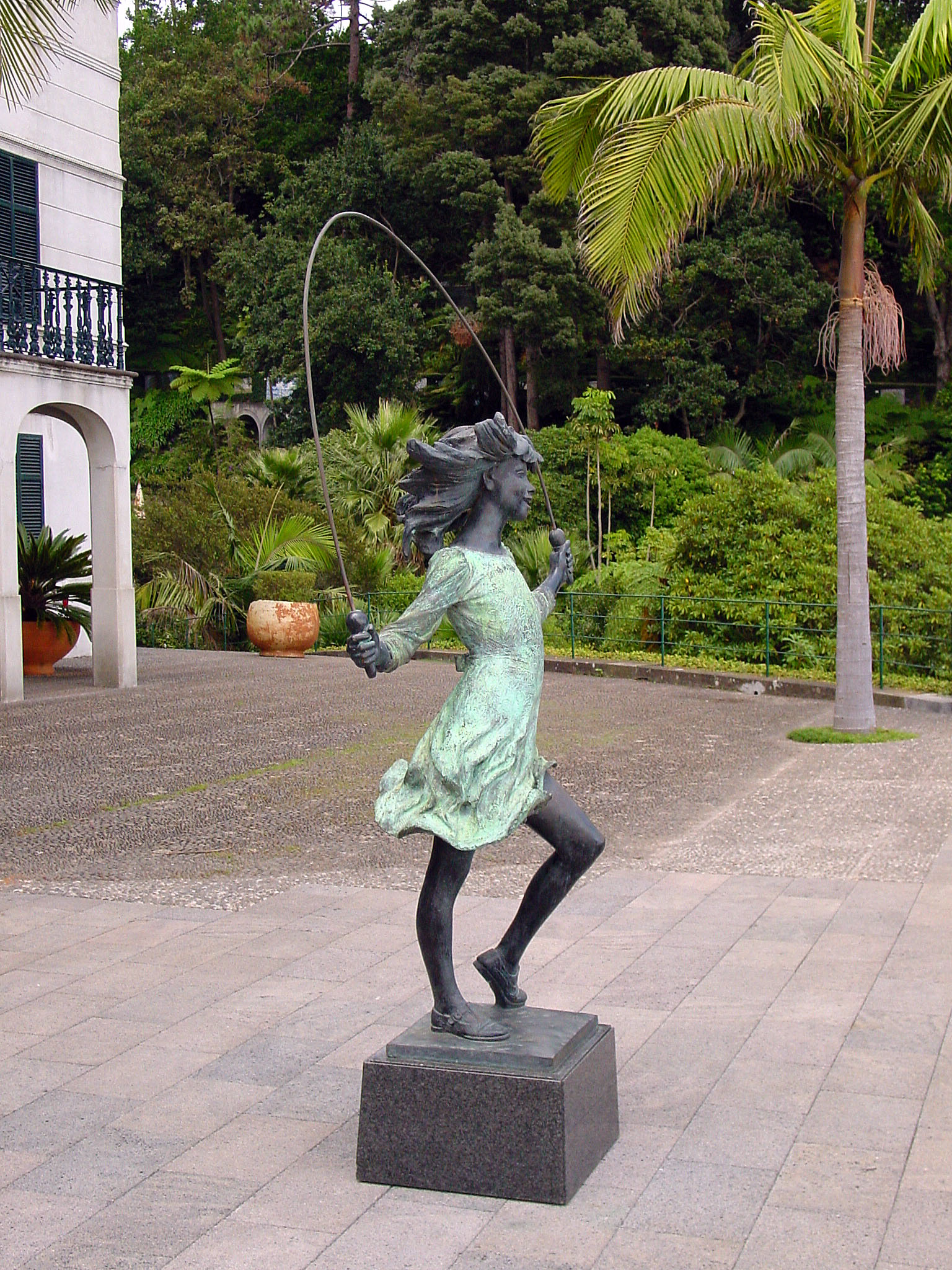 Statue of girl skipping with a rope in Jardim Botanico / Botanic Garden, Funchal, Madeira. The exact camera position is not known. - OpenStreetMap(Info)